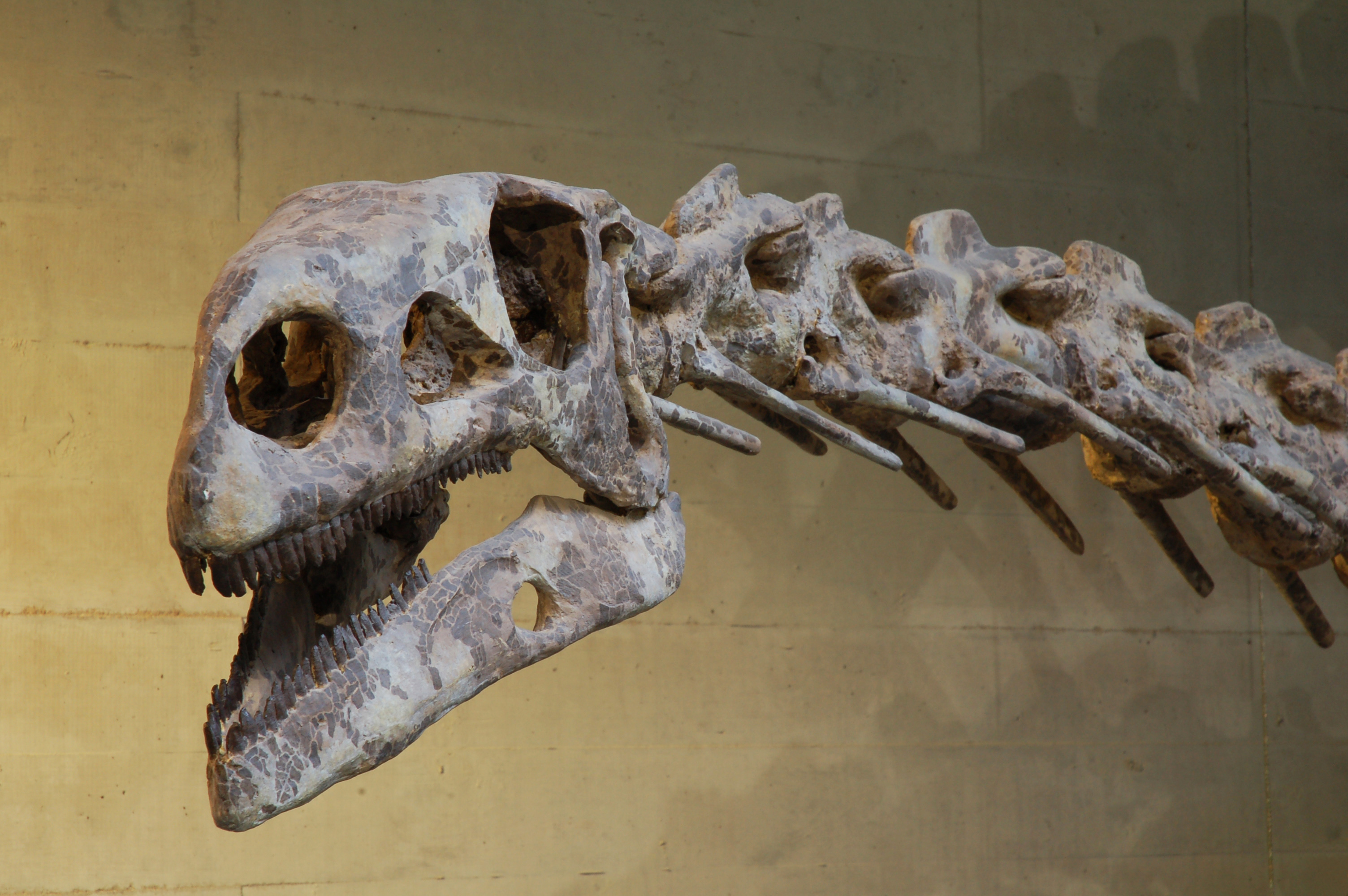 Skull of Plateosaurus engelhardti MEYER 1837, an early sauropodomorph from the Upper Triassic of Central Europe, in the Naturhistorisches Museum Nürnberg (Natural History Museum of Nuremberg), Germany. It is probably part of a replica of a mounted skeleton which is displayed in the Paläontologisches Museum München (Paleontological Museum of Munich) and which comprises material (BSP 1962 I 153) found in the town of Ellingen, Bavaria, in 1962.[1]